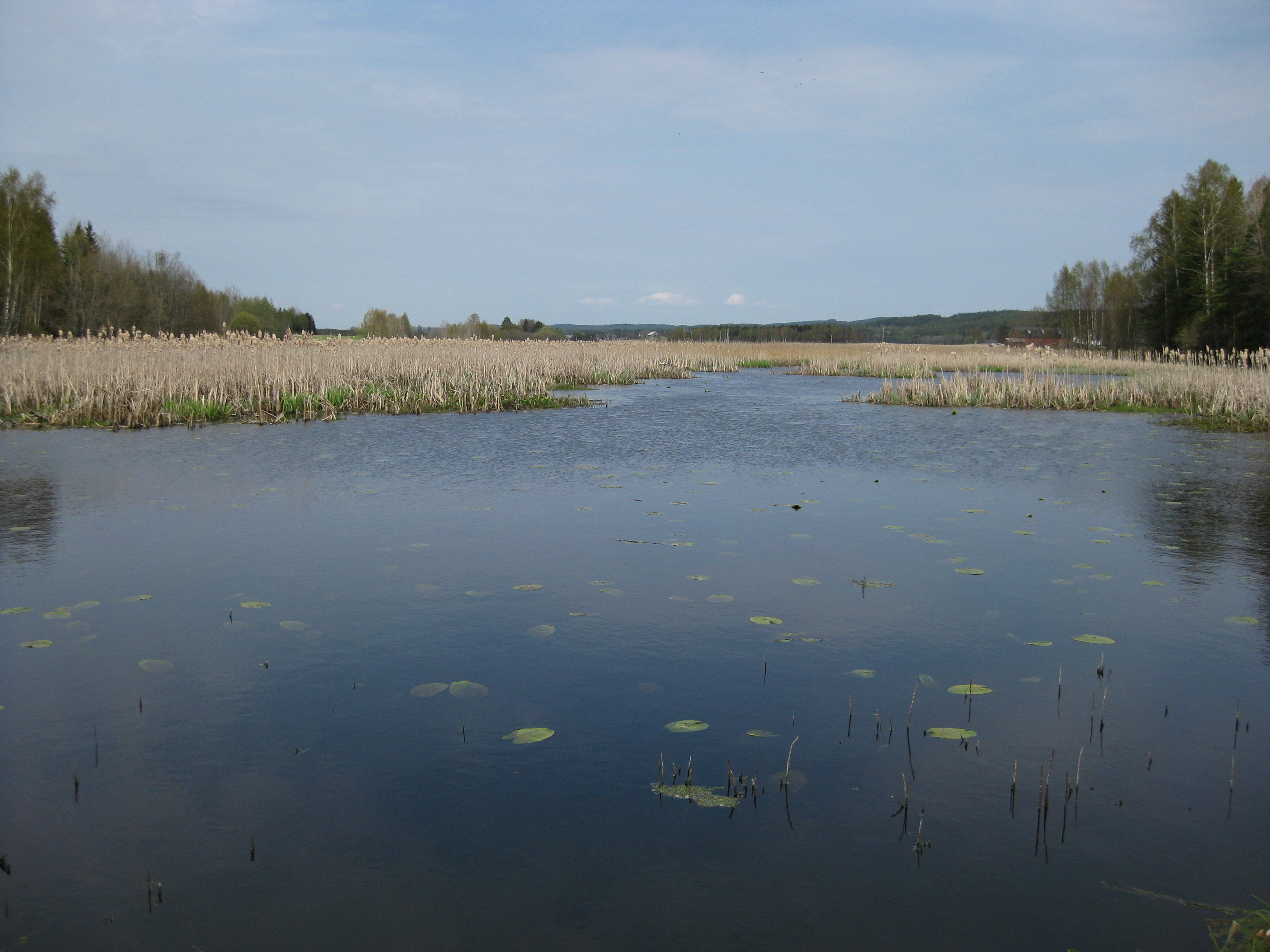 Lake Gjølsjøen in Marker, Norway.